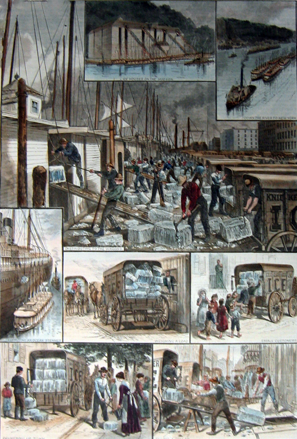 Ice Trade in New York, 1884